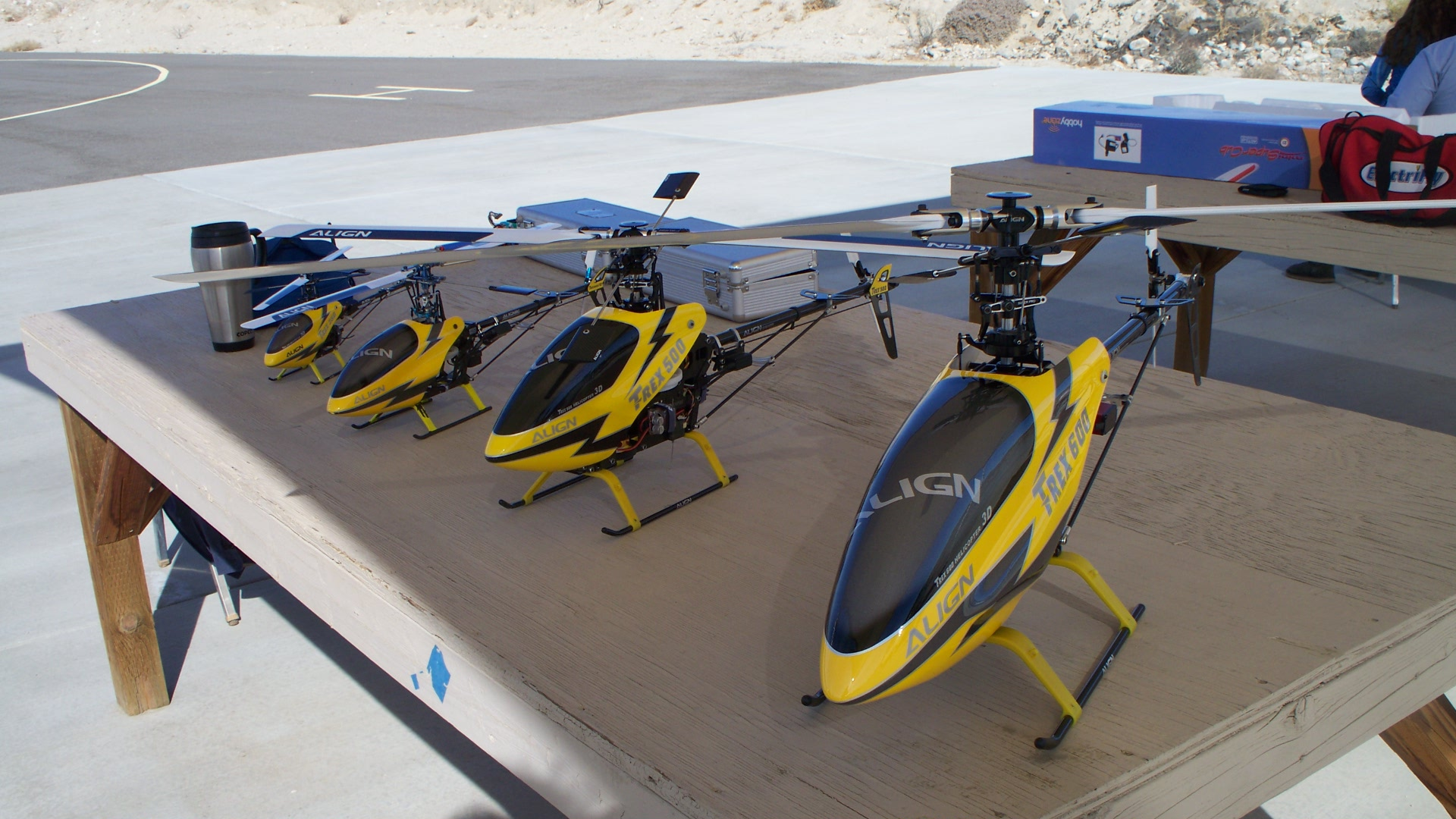 Collection of "T-Rex" radio controlled model helicopters manufactured by Align Corporation Limited. Shown left to right: T-Rex 250, T-Rex 450, T-Rex 500, T-Rex 600. Photographed at the Coachella Valley Radio Control Club near Thermal, California, USA.